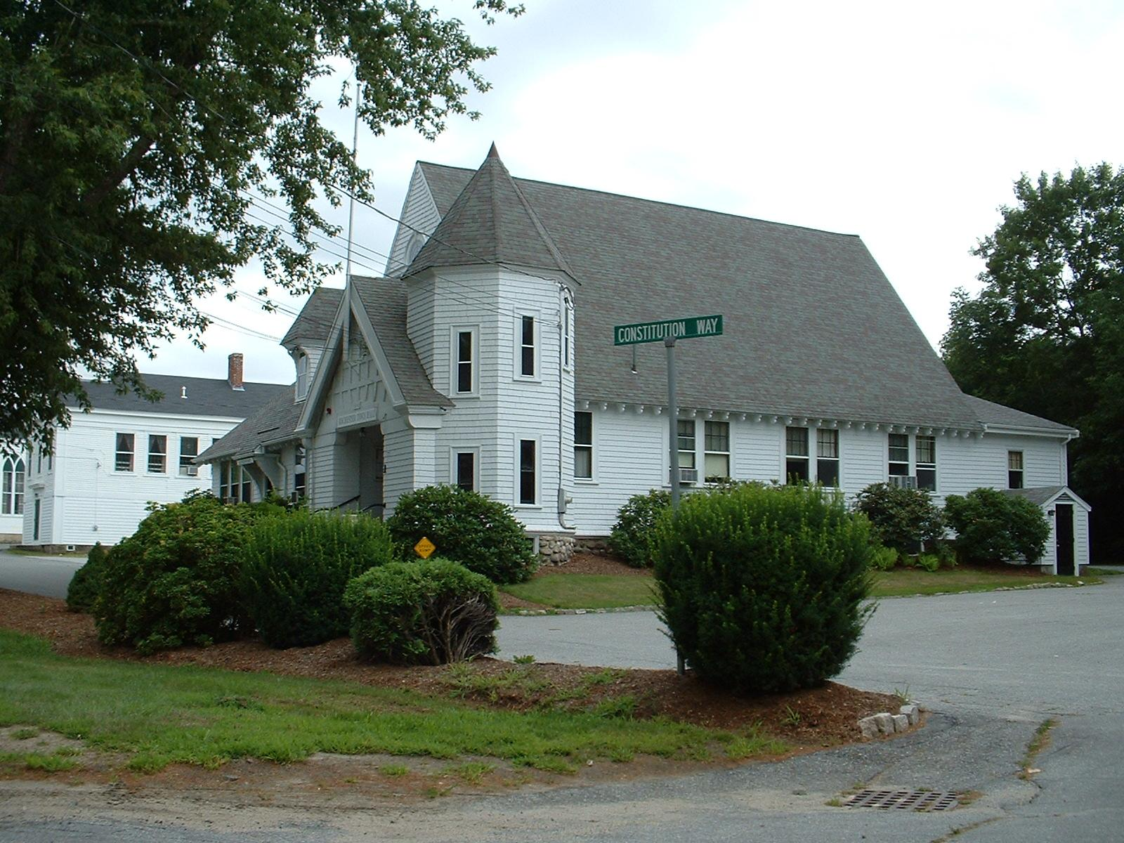 Rochester Town Hall, which is located at the northern end of the Town Common along Route 105.